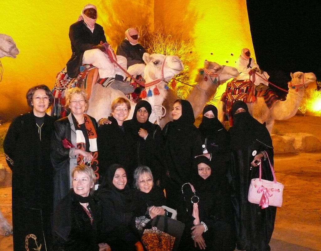 Western and Saudi Arabian women.